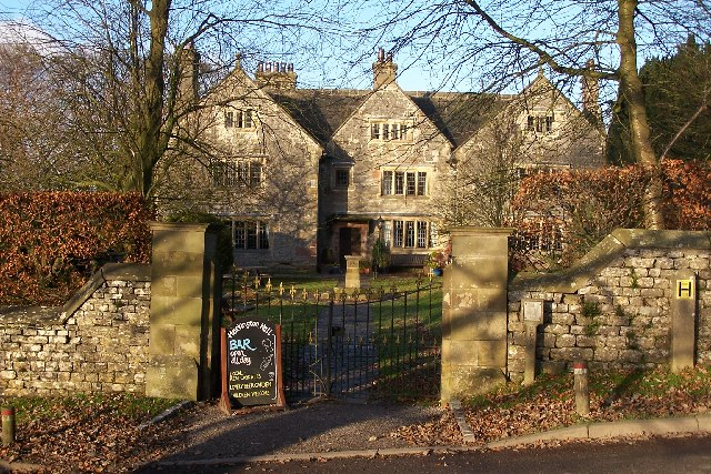 Hartington Hall Youth Hostel. They didn't have an all day bar when I started Hostelling!